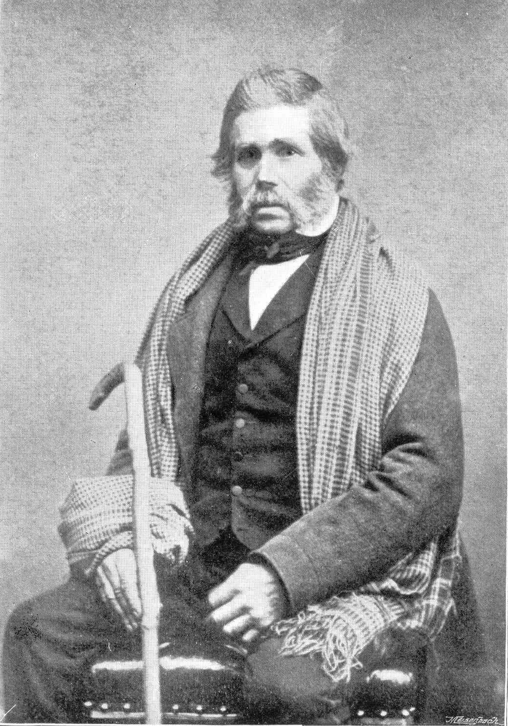 scan of old photo of Charles Spence (1779 Kinfauns-1869 Manchester): The Bard of Gowrie, the poet of the carse.Rodolph 09:56, 18 May 2007 (UTC)